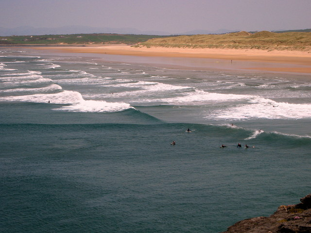 Tullan Strand, near Bundoran Beach just north of Bundoran. Impressive breakers rolling in from the Atlantic with a large number of surfers taking full advantage.